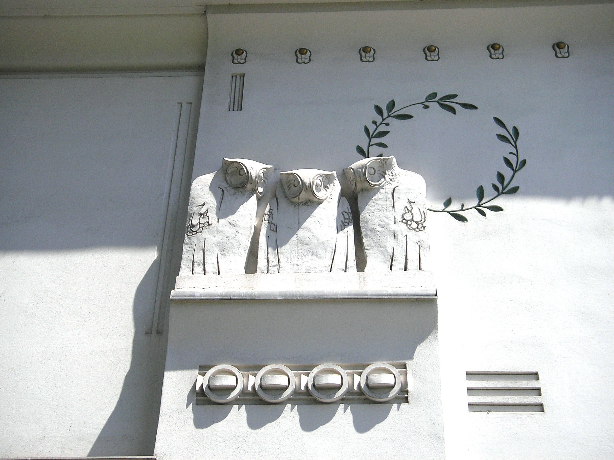 Austria, Vienna, Secession hall